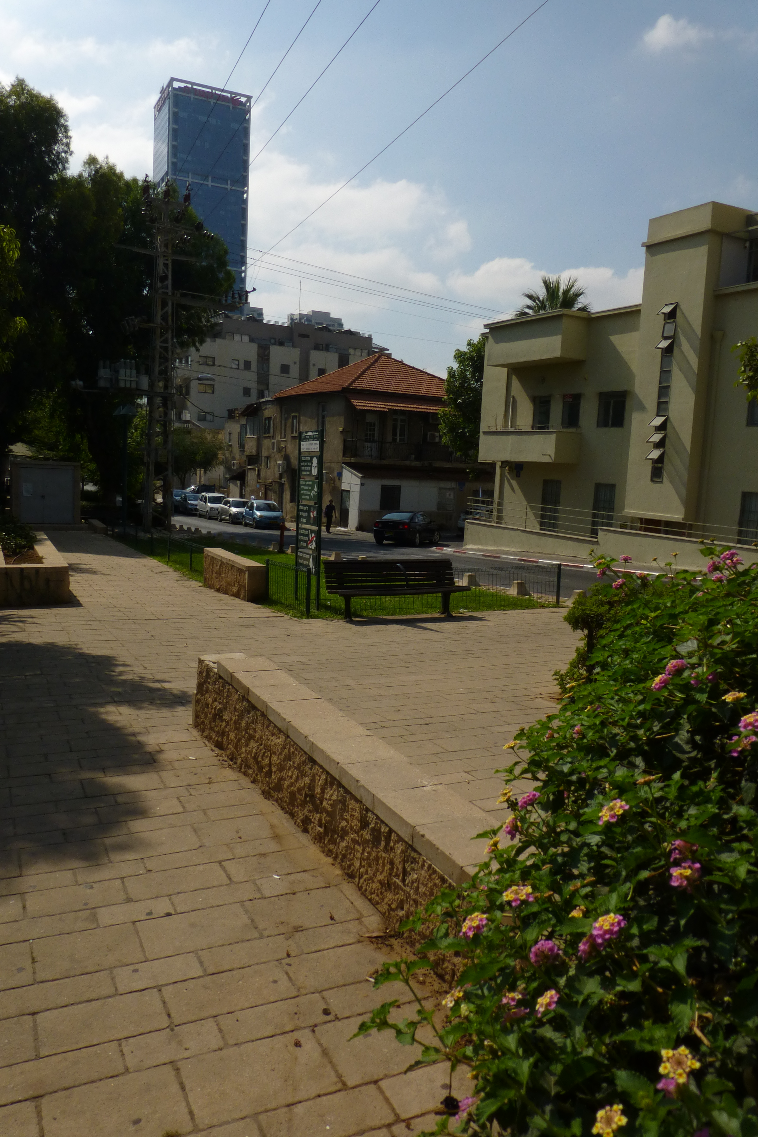 Electra Tower